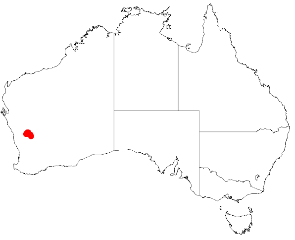 Acacia karina Occurrence data from Australasia Virtual Herbarium downloaded from on 8 December 2018